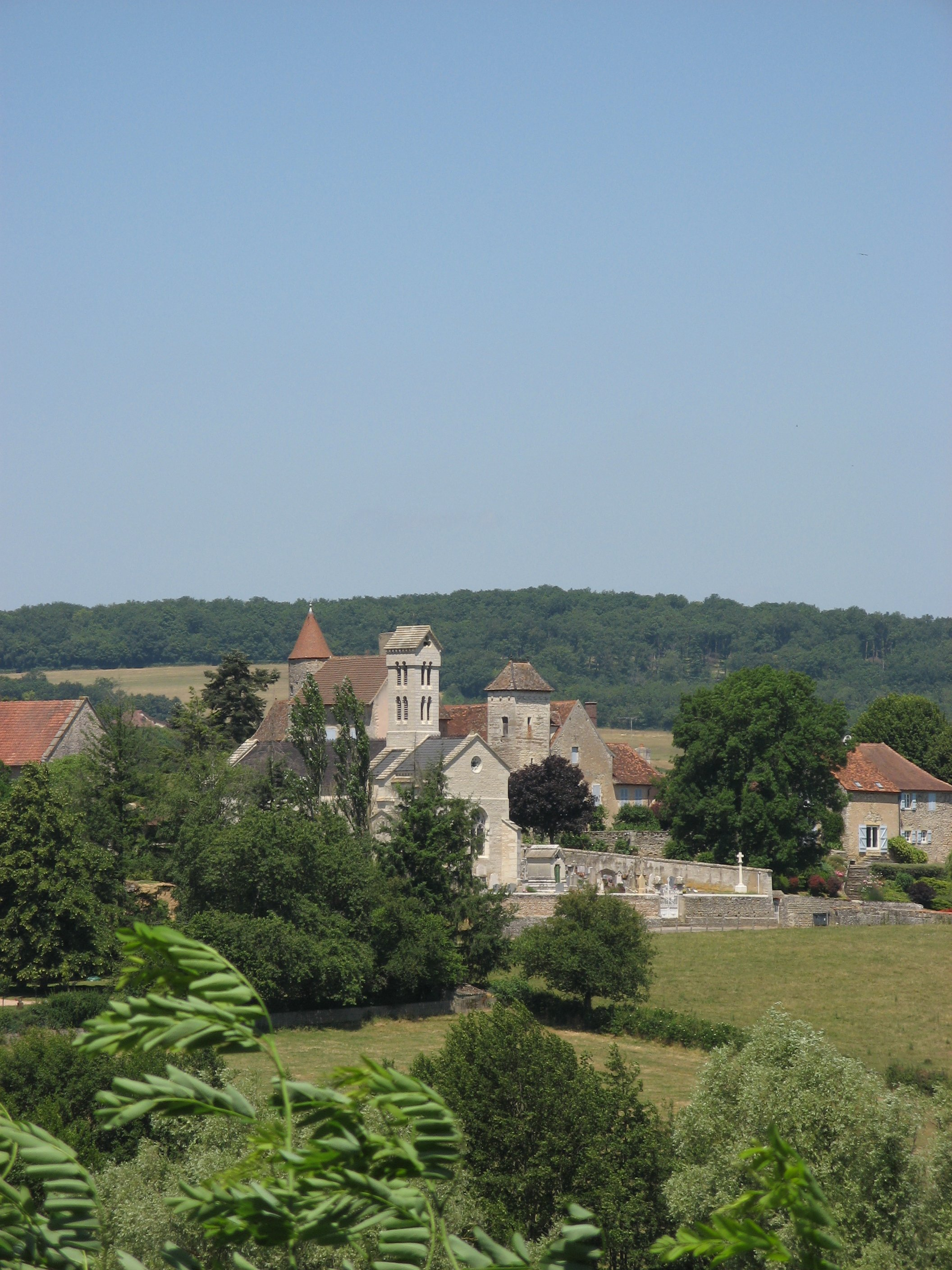 Church and Castle in Savianges (France)